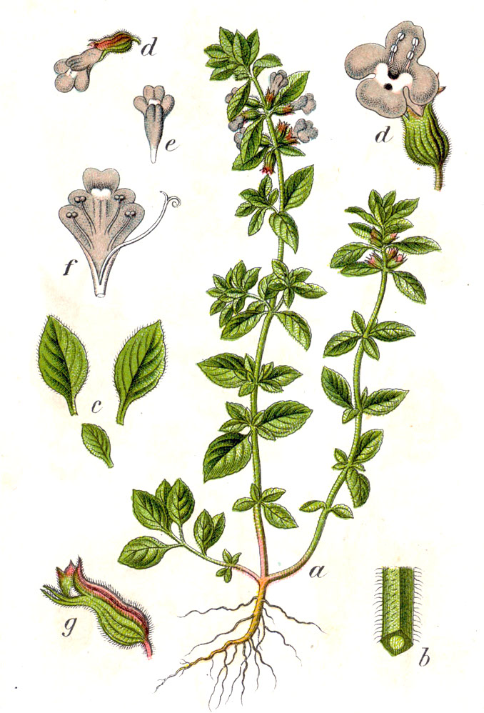 Acinos arvensis (Lam.) Dandy subsp. arvensis, syn. Calamintha acinos (L.) Clairv., Thymus acinos L. : Clinopodium acinos (L.) Kuntze Original Caption Wilde Basilie, Thymus acinos